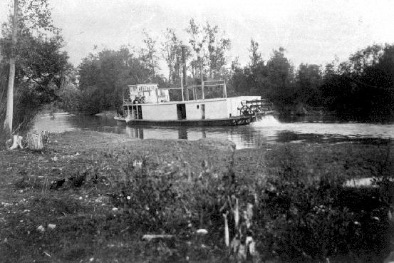 Gwendoline (sternwheel steamboat) on Columbia River, British Columbia, ca 1896. (This vessel's name may sometimes be seen spelled Gwendolyne).